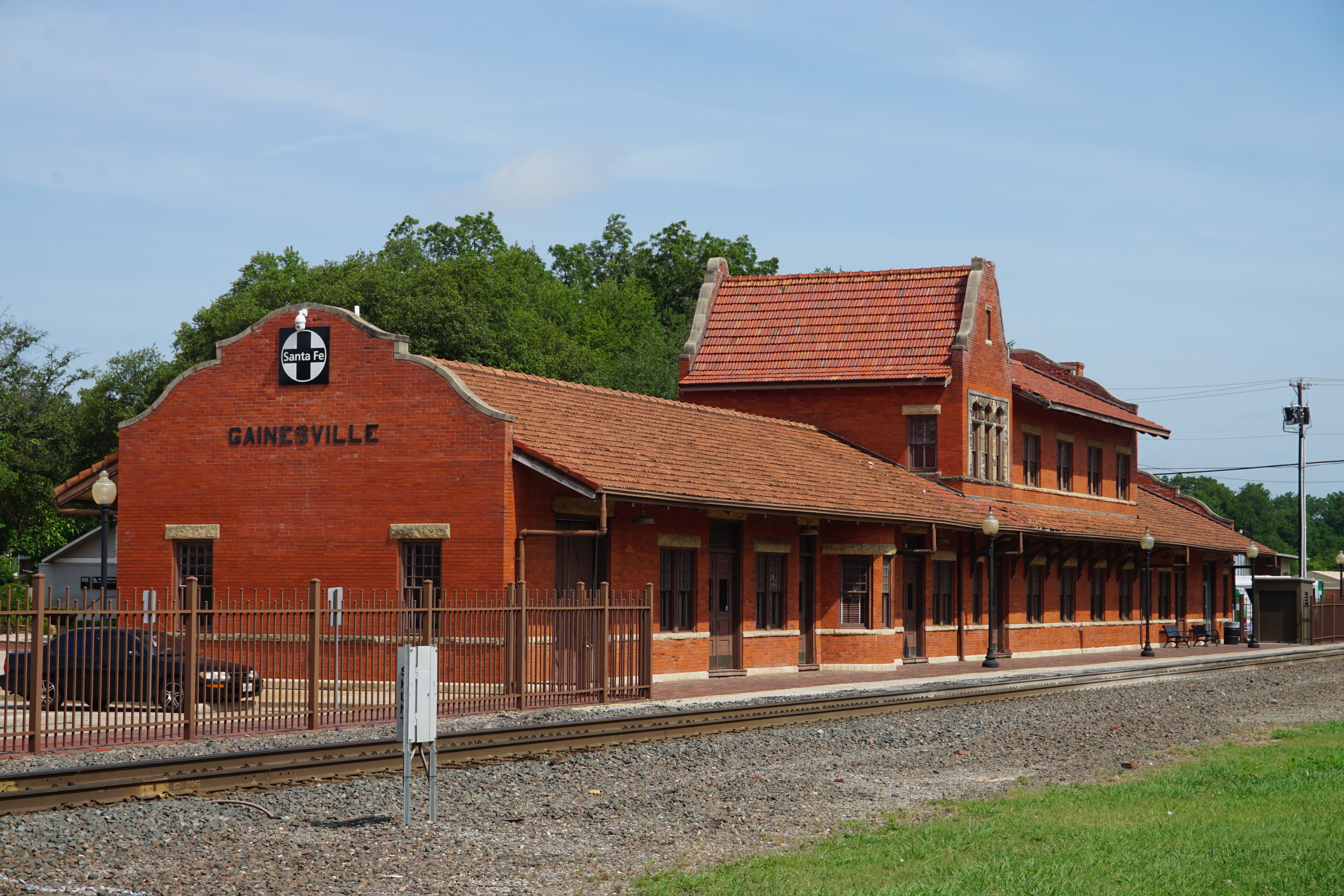 The Santa Fe Depot in Gainesville, Texas (United States).